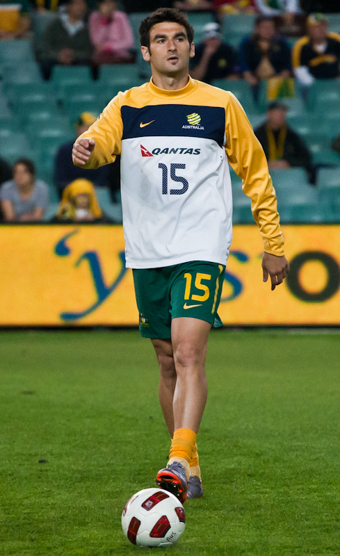 Mile Jedinak representing the Australian national football team against Paraguay at the Sydney Football Stadium.